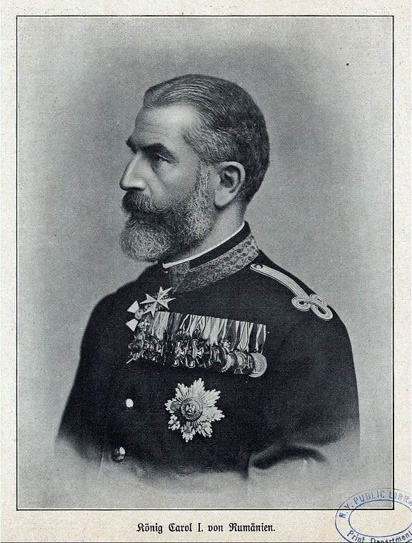 Carol I of Romania